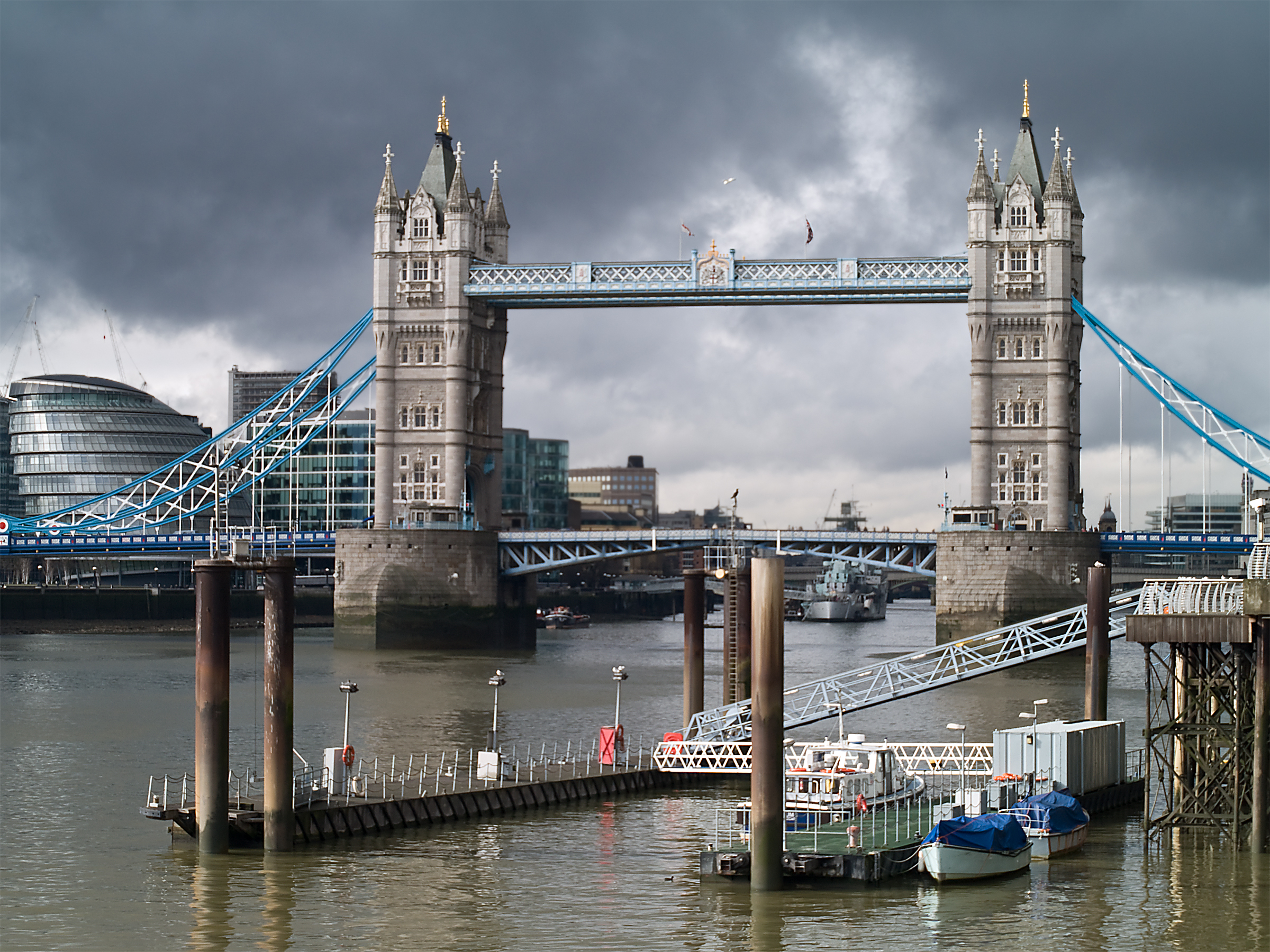 Tower Bridge, seen from St Katharine's Way (London, United Kingdom). In the foreground, the pier of HMS President.